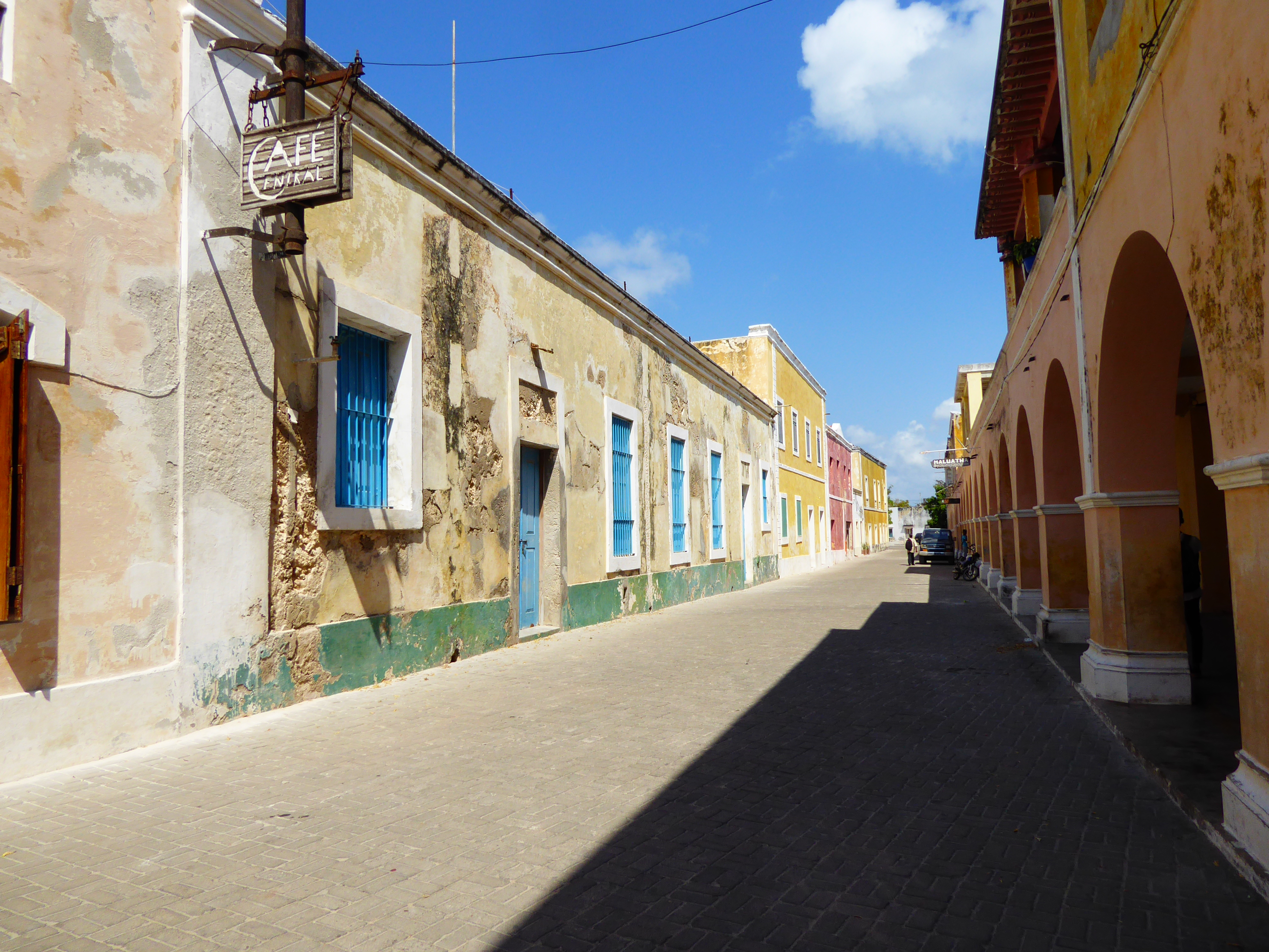 Av Amílcar Cabral, Ilha de Moçambique, Mozambique